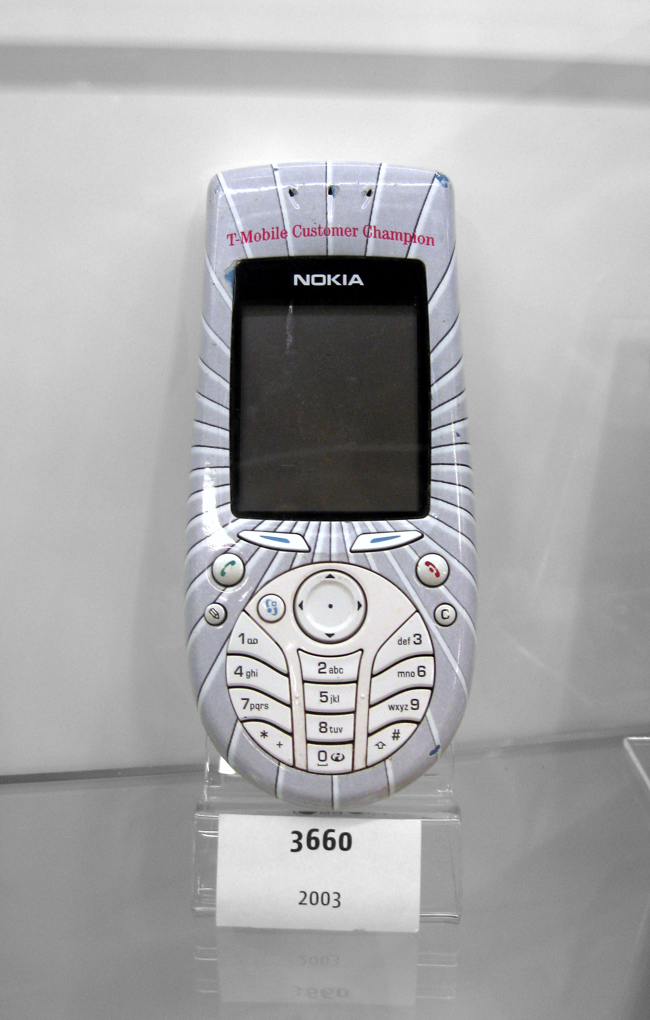 Nokia 3660 mobile phone.